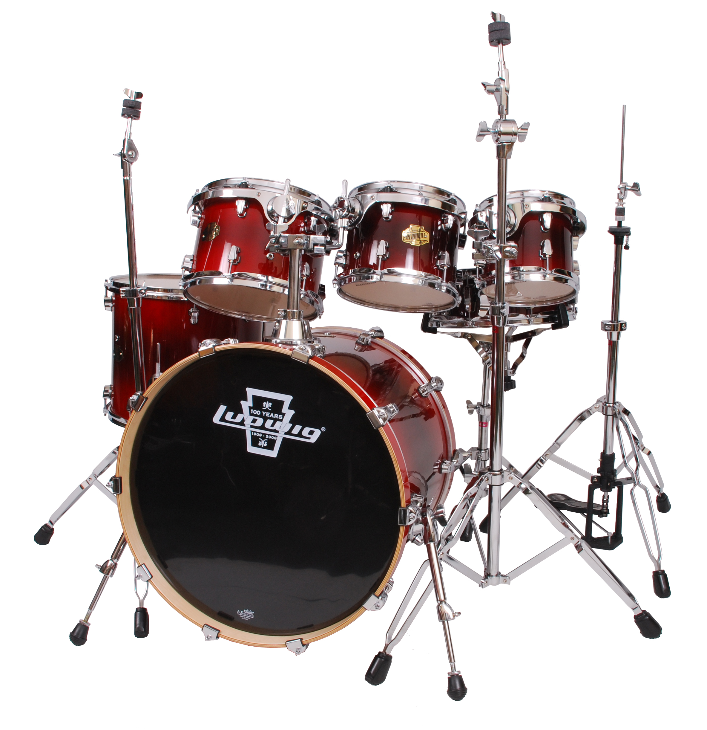 Ludwig Element power tom fusion kit, with rim mounts on the hanging toms: 22x18 bass, 8x7, 10x8, 12x9 hanging toms, 16x14 floor tom, 14x5 snare.